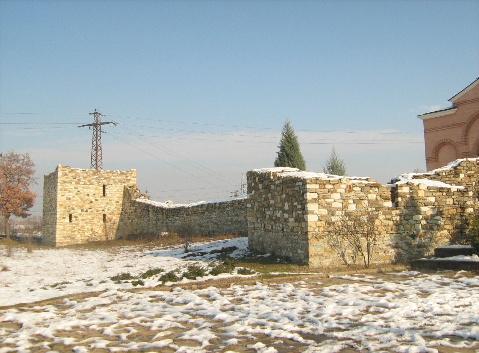 Church St Ioan, Kardzhali, Bulgaria